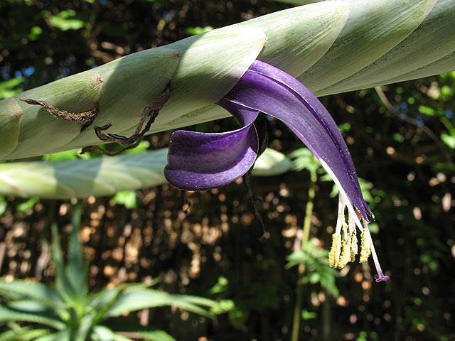 Tillandsia rauhii, in cultivation in Marbella, Southern-Spain. The Original-imagefiles were lost during to a harddisk-crash, thats why no higher resolution is available.